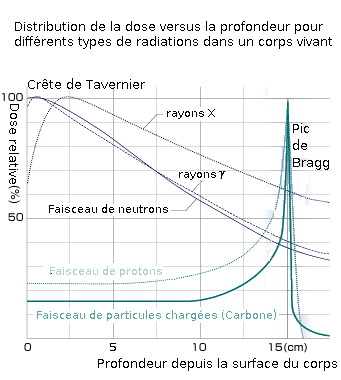 Illustration of the Tavernier Crest, phenomenon that the belgian nuclear physicist Guy Tavernier discovered in 1948, of increase of the irradiation dose versus the depth in an organism, before exponentially decreasing, for X and Gamma rays and neutrons beams.